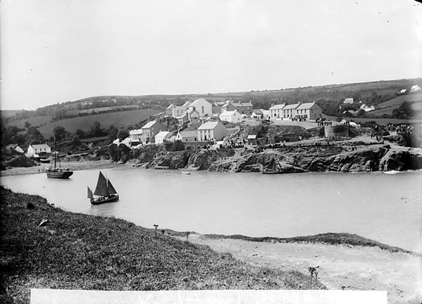 1 negative : glass, dry plate, b&w ; 12 x 16.5 cm.